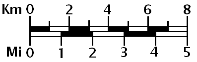 Map scale - 8km, 5mi